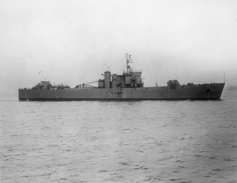 HMS Bruiser Underway.